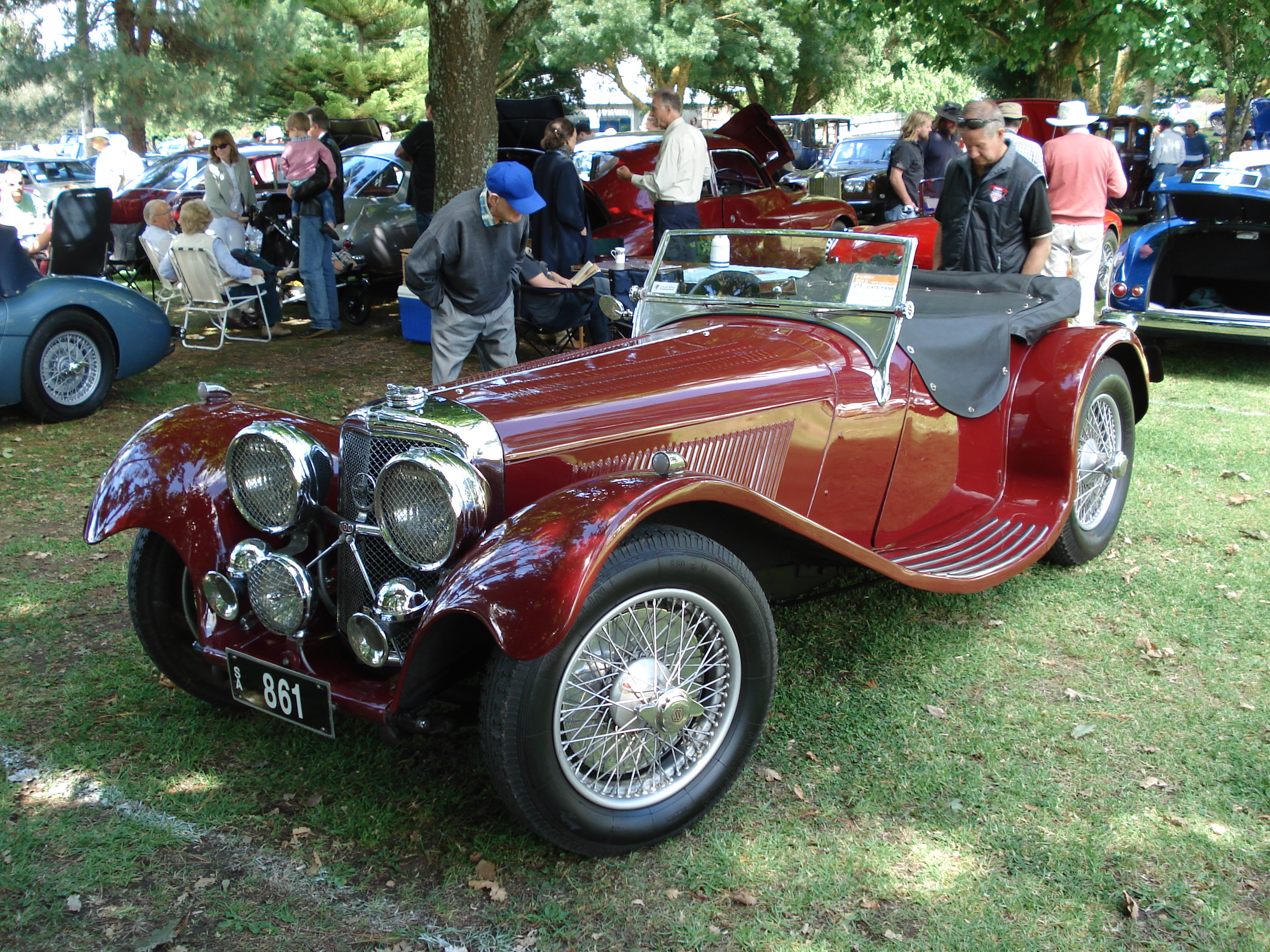 1939 Jaguar SS100 - All British Day 2012, Uraidla Oval, South Australia